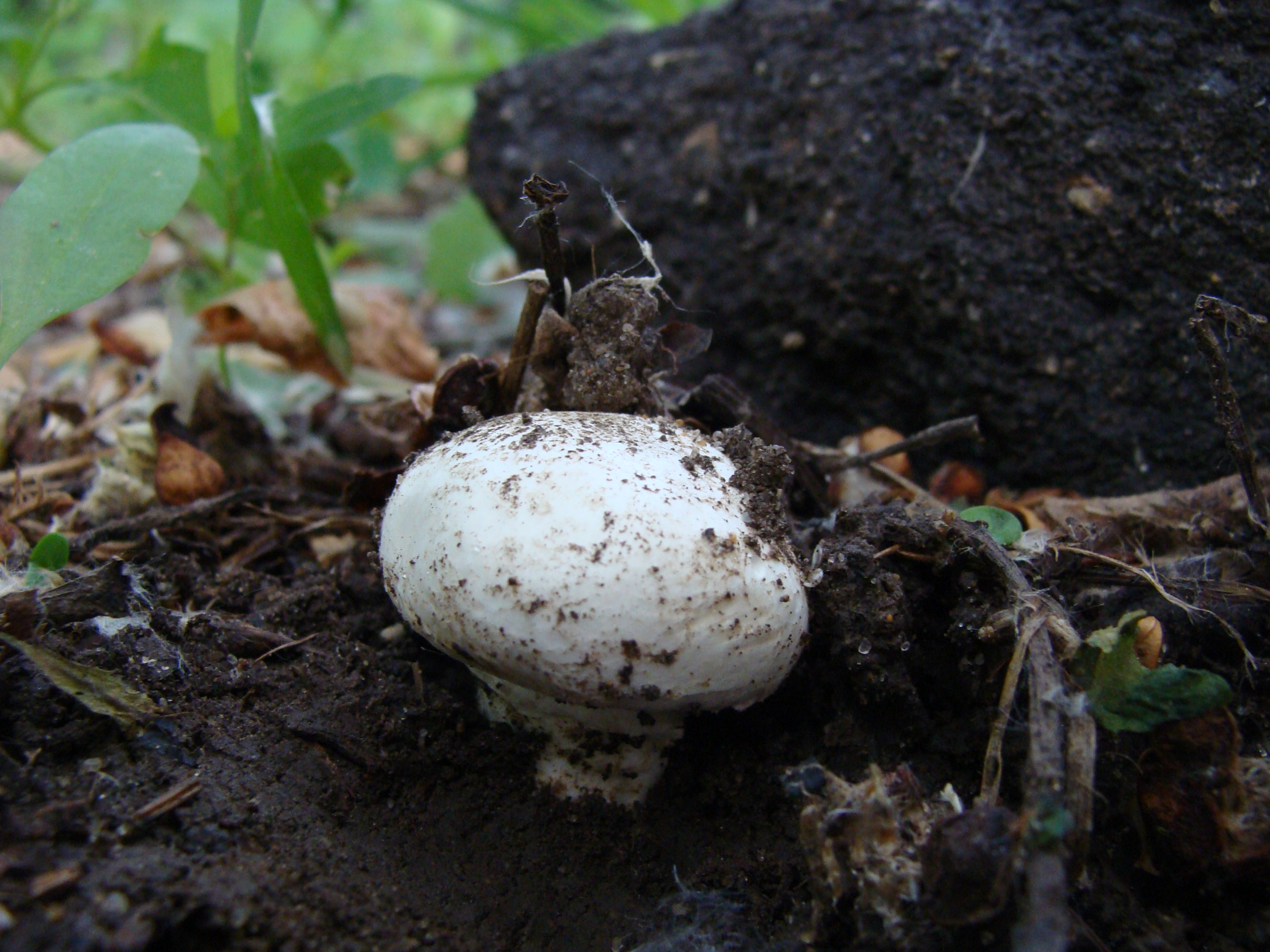 Some mushroom in the Setun' river valley. If you know, what kind is it, please CHANGE this description. Thanks. Attention! Do not try to eat that kind of mushrooms!